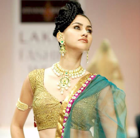 A Model showcasing at Salim-Sulaiman walk for Shyamal-Bhumika at the Lakme Fashion Week 2010